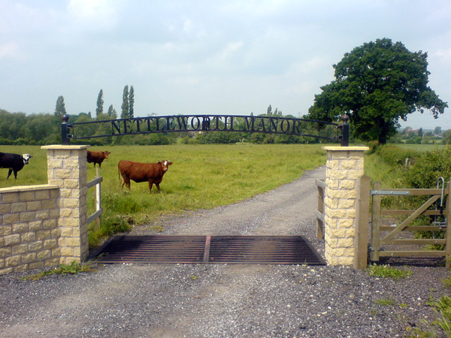 Road to Nettleworth Manor The cattle grid does a wonderful job of stopping the livestock wandering onto the road but how do you get a HGV or tractor down there? Does the sign swing open?